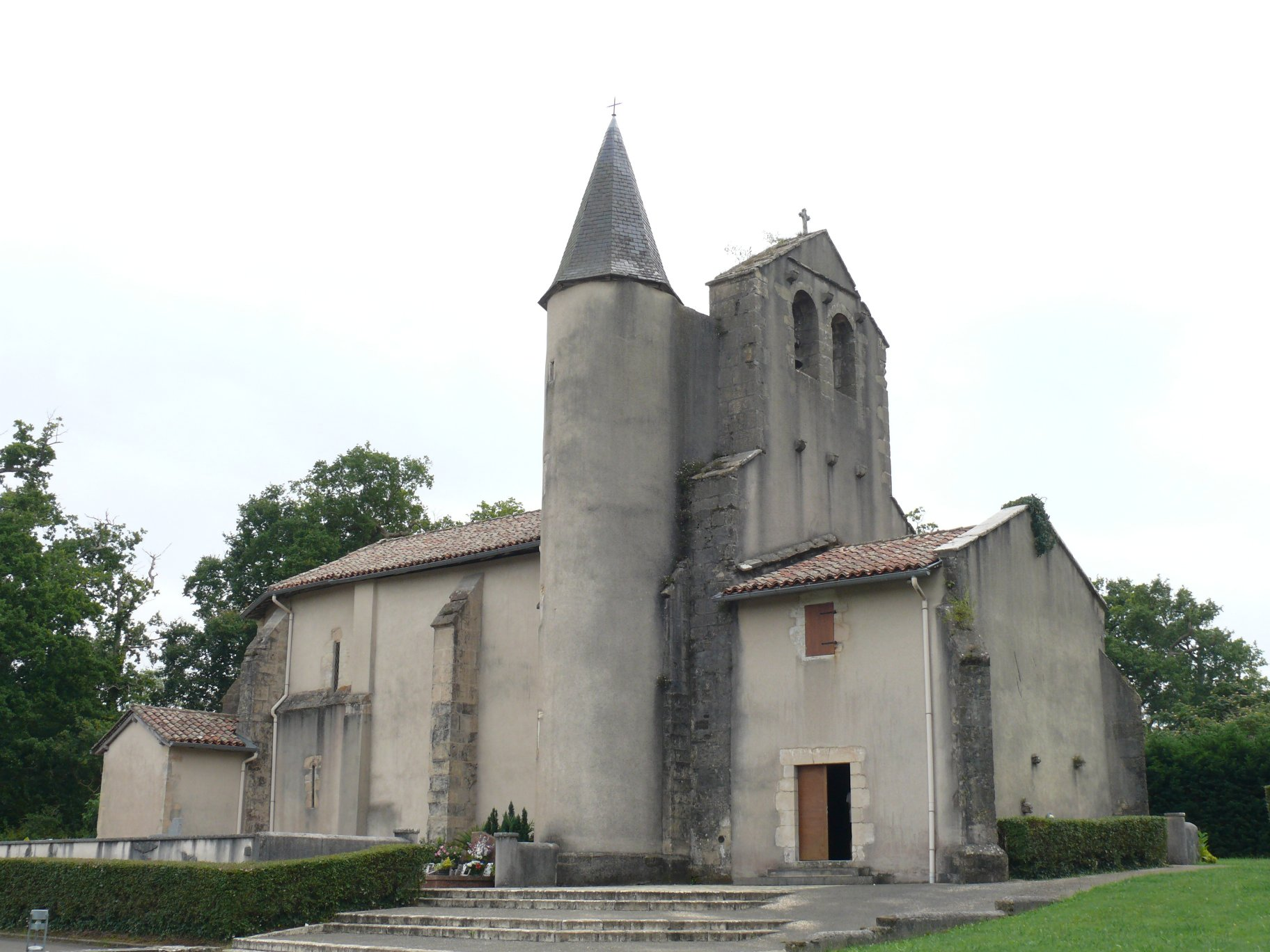 Saint-Étienne's church of Biarrotte (Landes, Aquitaine, France).